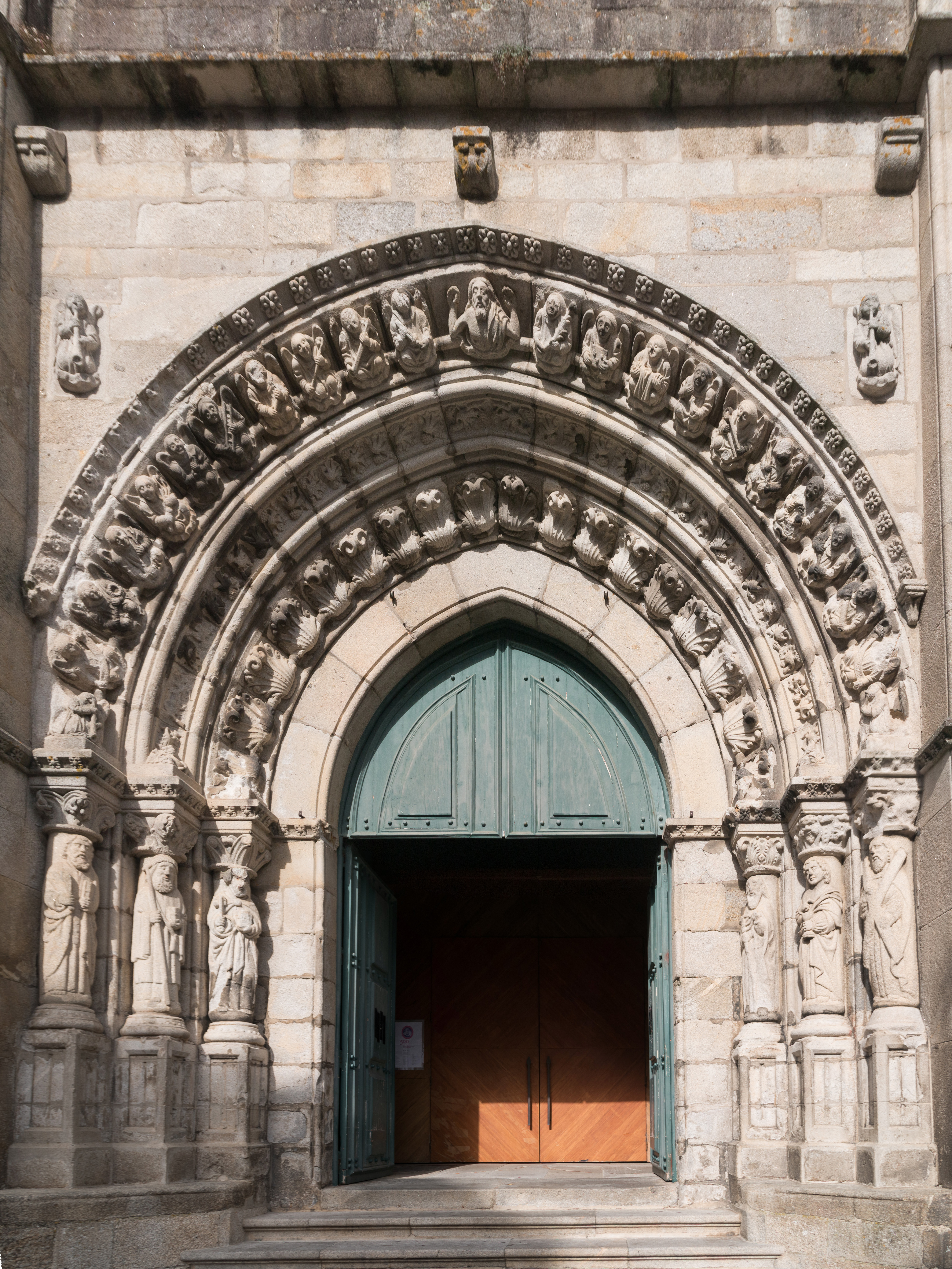 Porch of the Cathedral of Viana do Castelo.